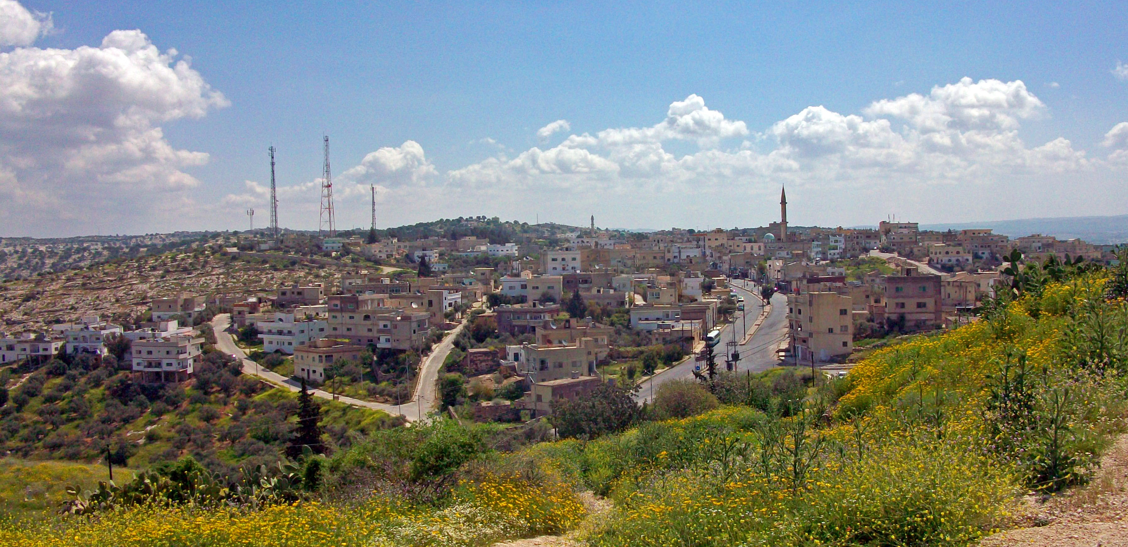 View of the modern community of Umm Qais, Jordan, from the museum at the Roman ruins north of the town